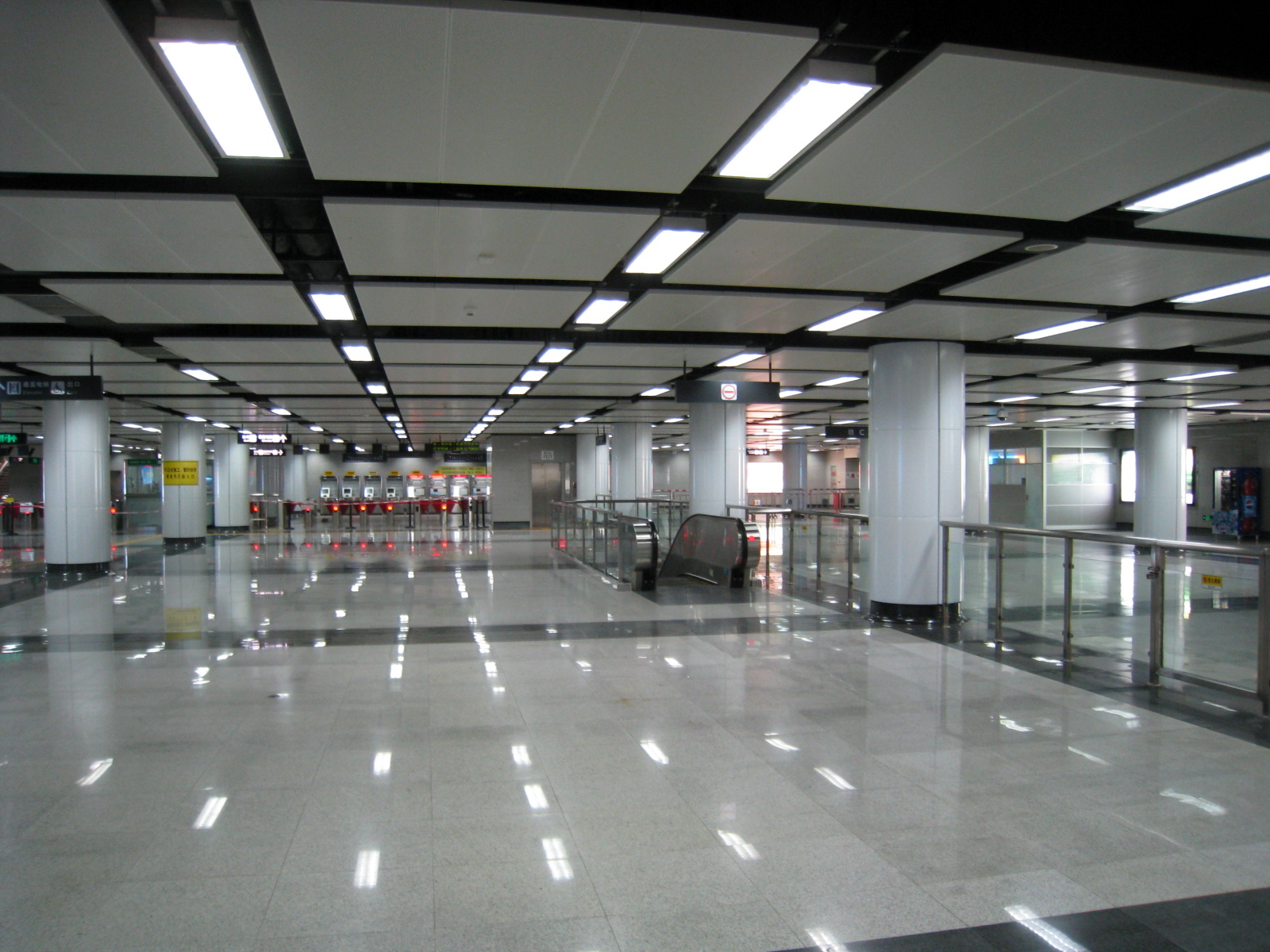 Shenzhen Metro Hui Zhan Zhong Xin Concourse 會展中心站